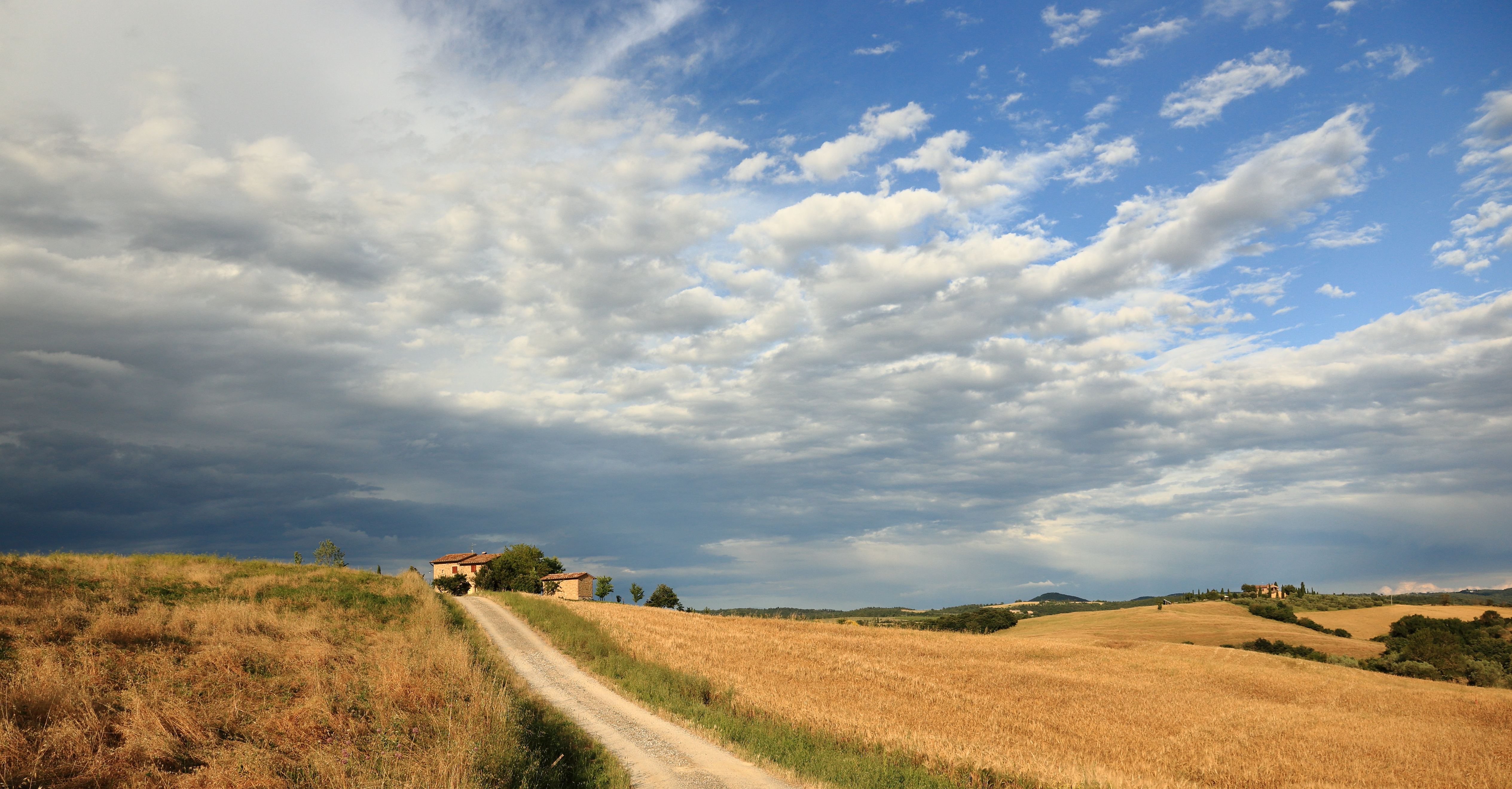 Tuscan landscape